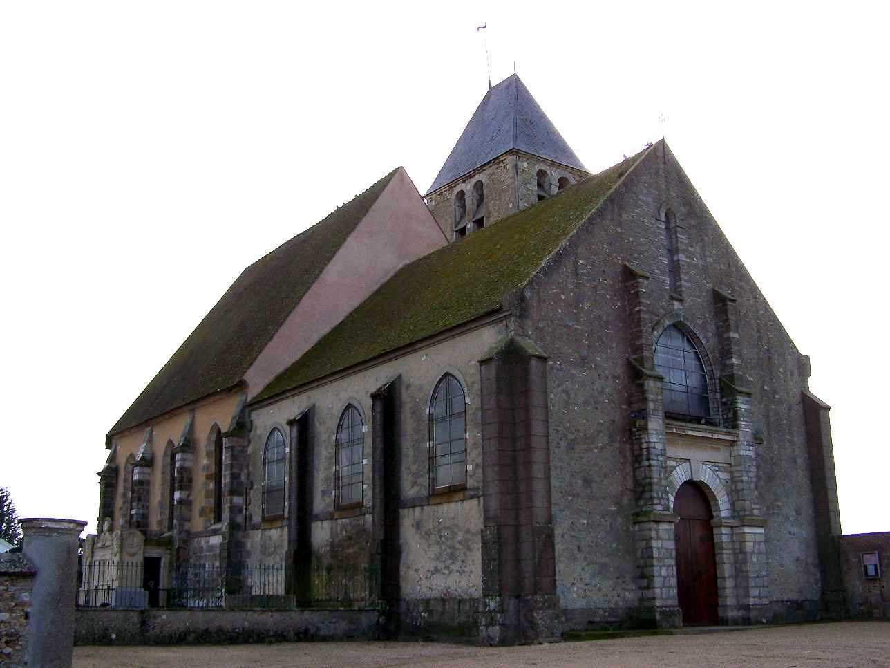 Church of Gambais (Yvelines, France)